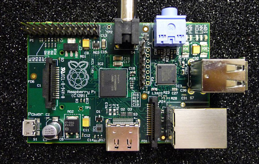 A Raspberry Pi beta board – The retail ones will have the same appearance